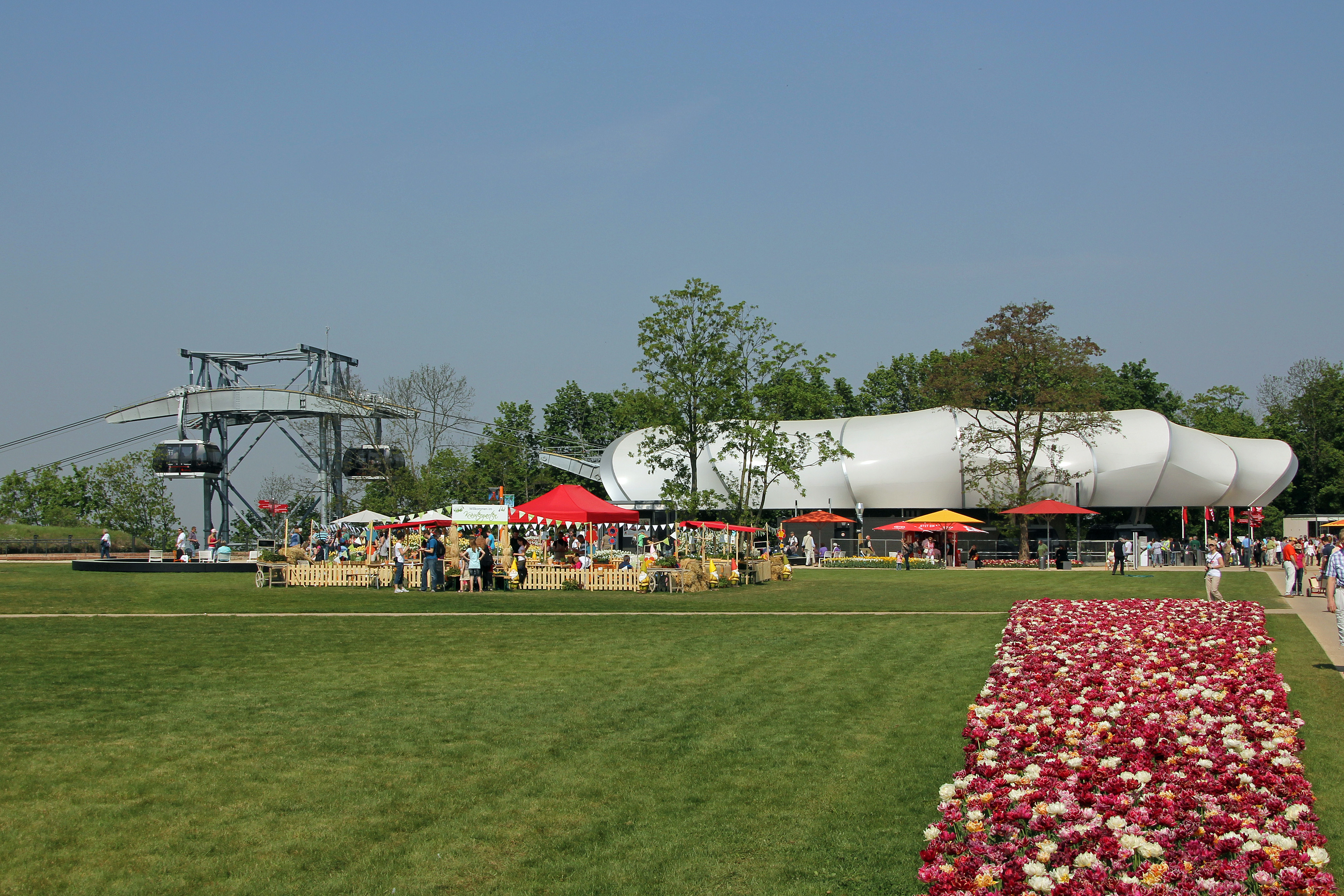 Koblenz Cable Car